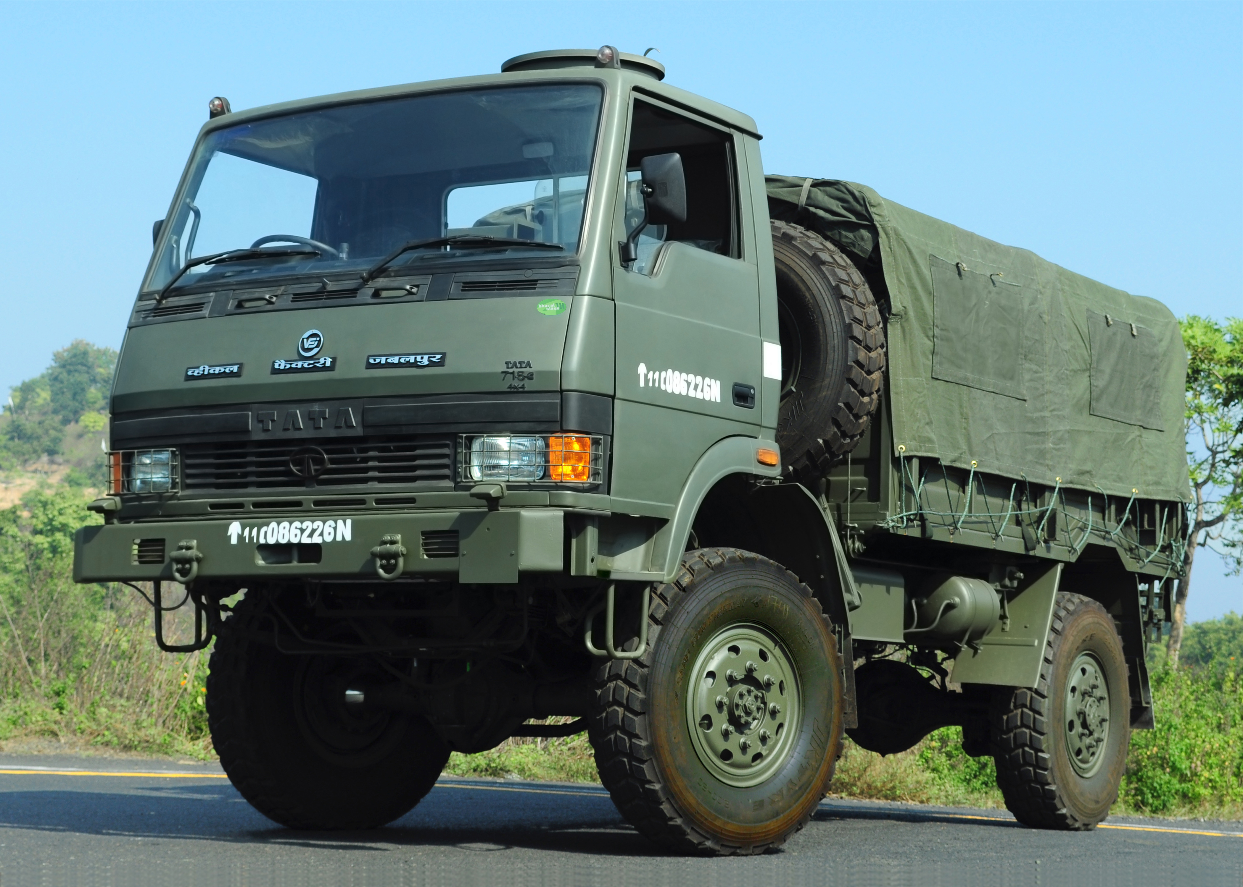 Ordnance Factory Board Vehicle Factory Jabalpur (VFJ)'s LPTA 715 Truck for the Indian Army